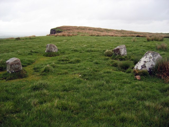 The Goatstones A small stone circle formed of four, squat, upright slabs, the eastmost one of which bears about 13 well preserved cup marks. Considered to belong to the four-poster class of stone circle, most commonly found in Perthshire. The trig point on Ravensheugh Crags is just visible above the right-hand stone in the row at the back.